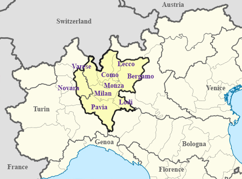 Map showing some provinces around Milan in northern Italy.